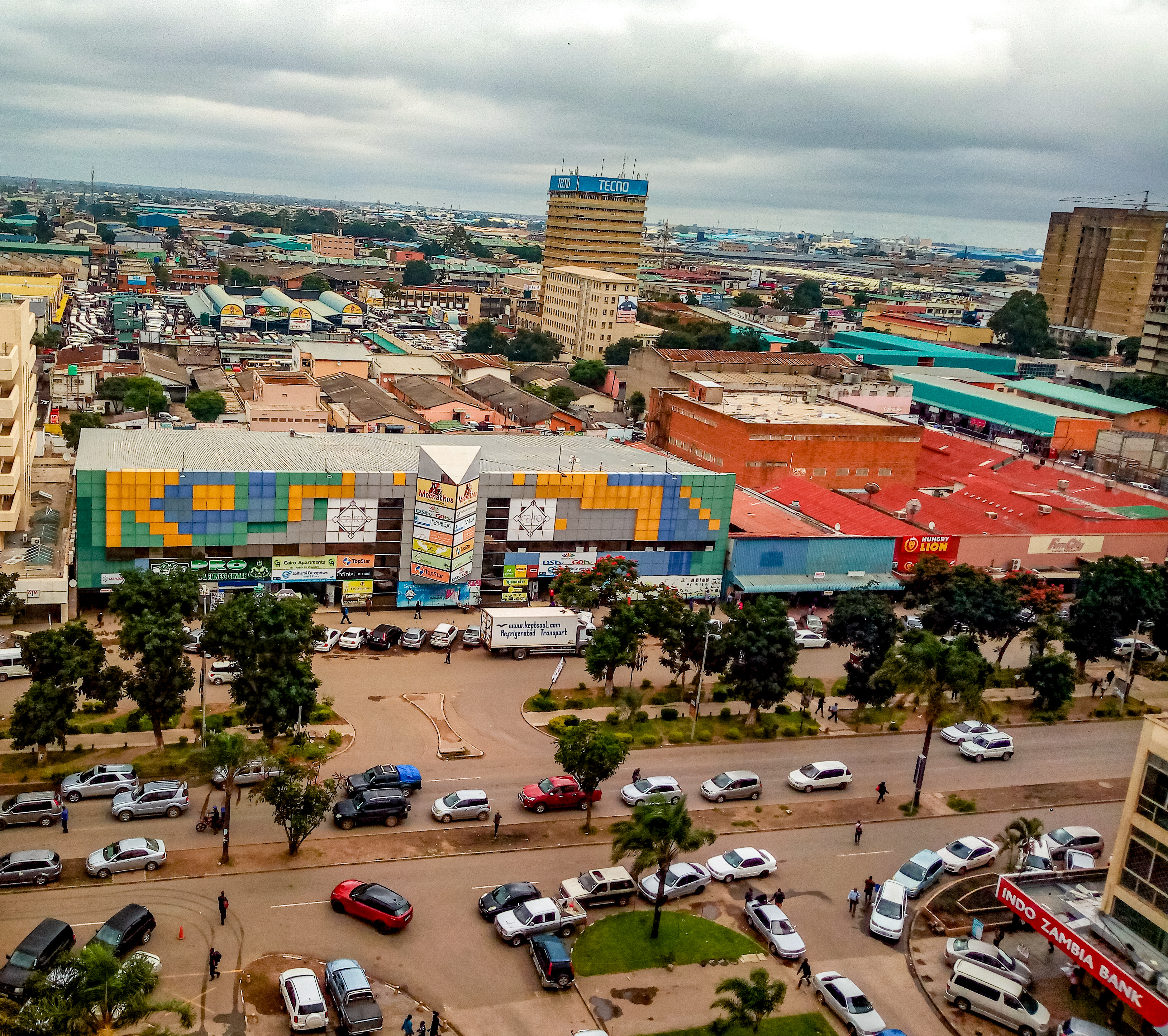 Lusaka City View of Cairo Road from Zanaco Main Branch Building This is an image with the theme "Africa on the Move or Transport" from: Zambia